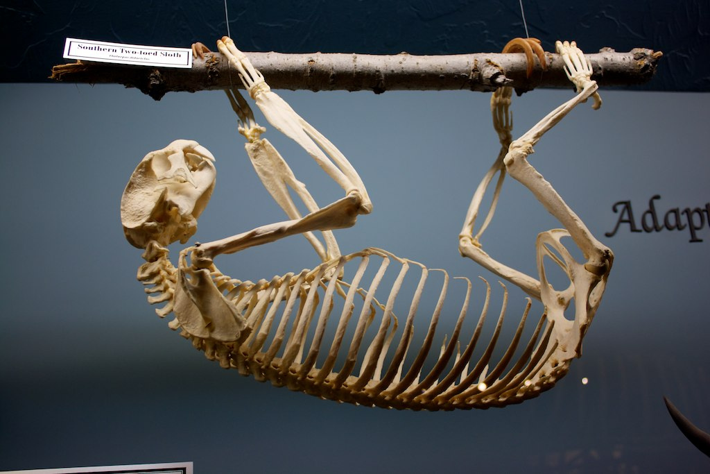 Skeleton of Choloepus didactylus at the Osteology Museum of Oklahoma